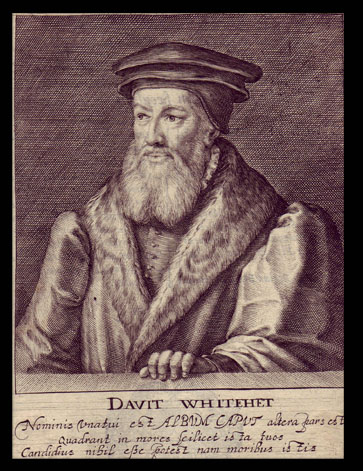 Portrait of David Whitehead (1492?–1571), English evangelical clergyman.